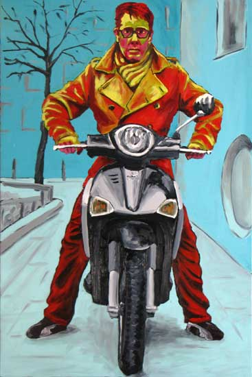 Self portrait.